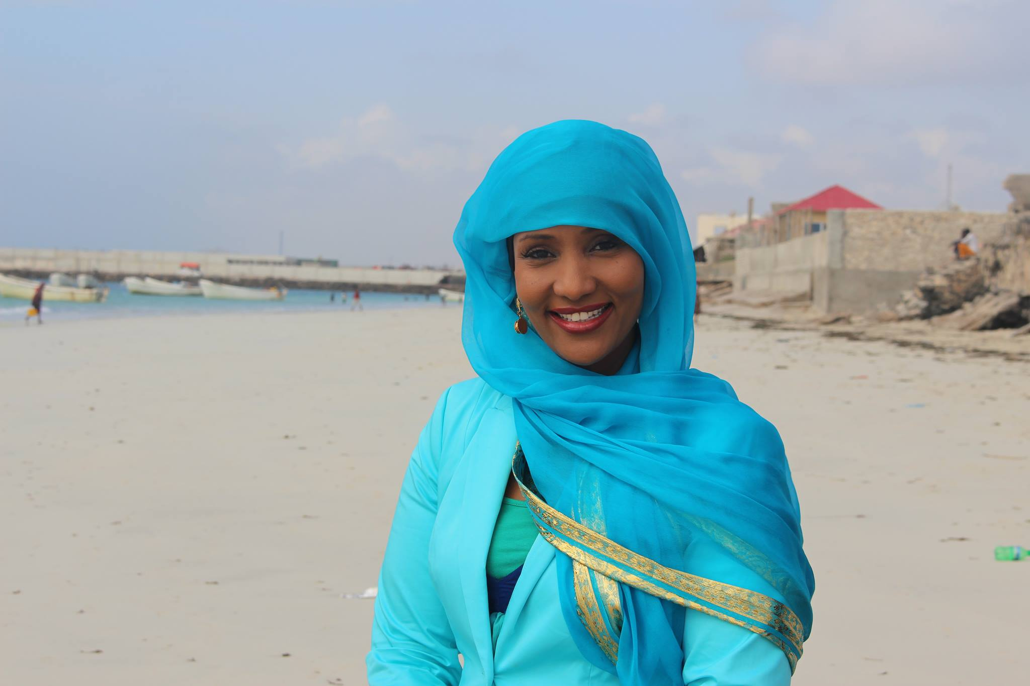 Nalayeh filming an episode of "Integration TV" in Mogadishu, Somalia